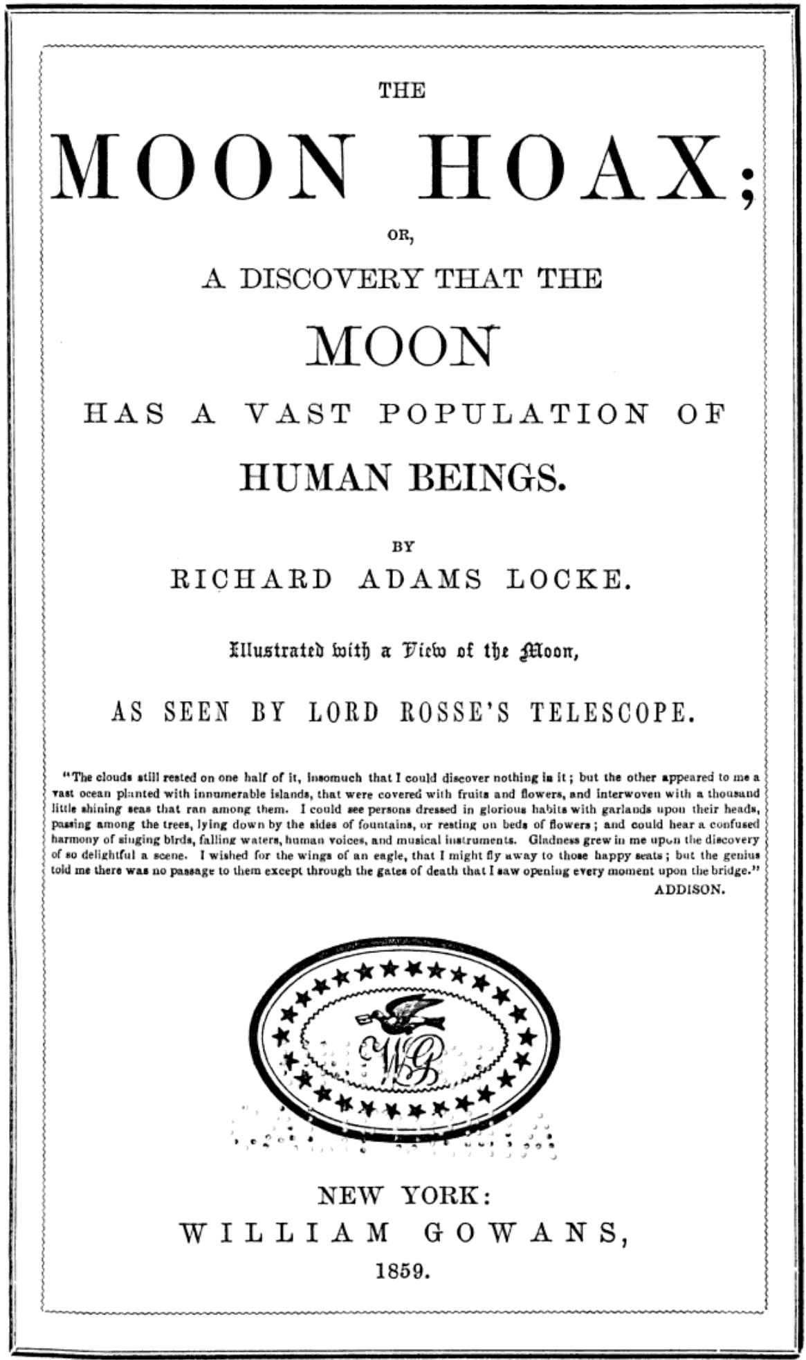 cower of the book